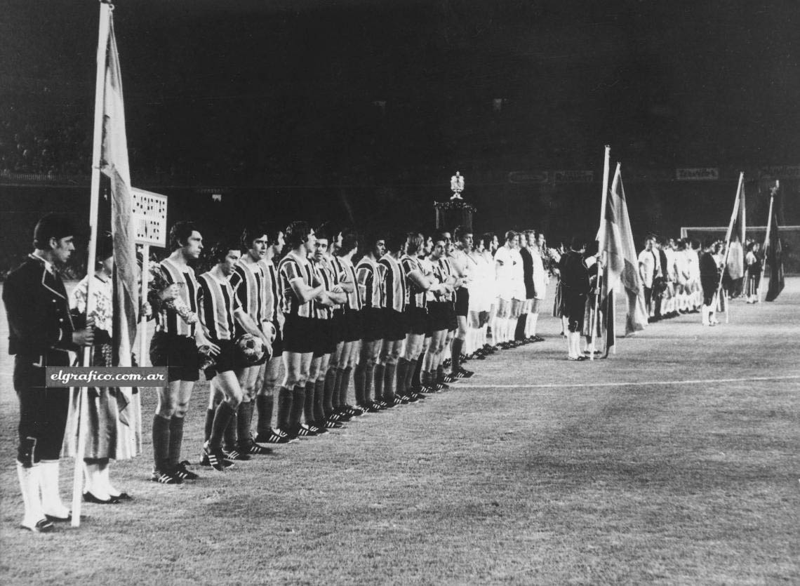 Chacarita Juniors and Bayern Munich before the Joan Gamper match. Chacarita won 2-0.